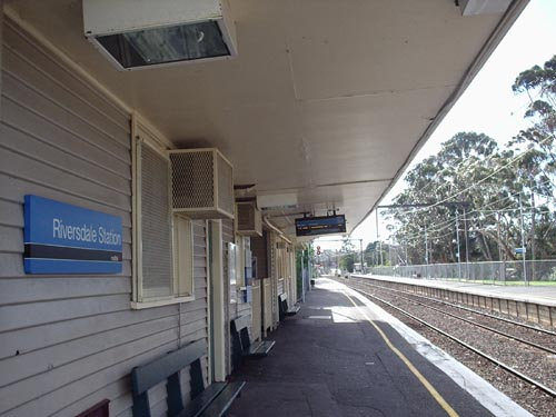 Riversdale Railway Station, Melbourne.